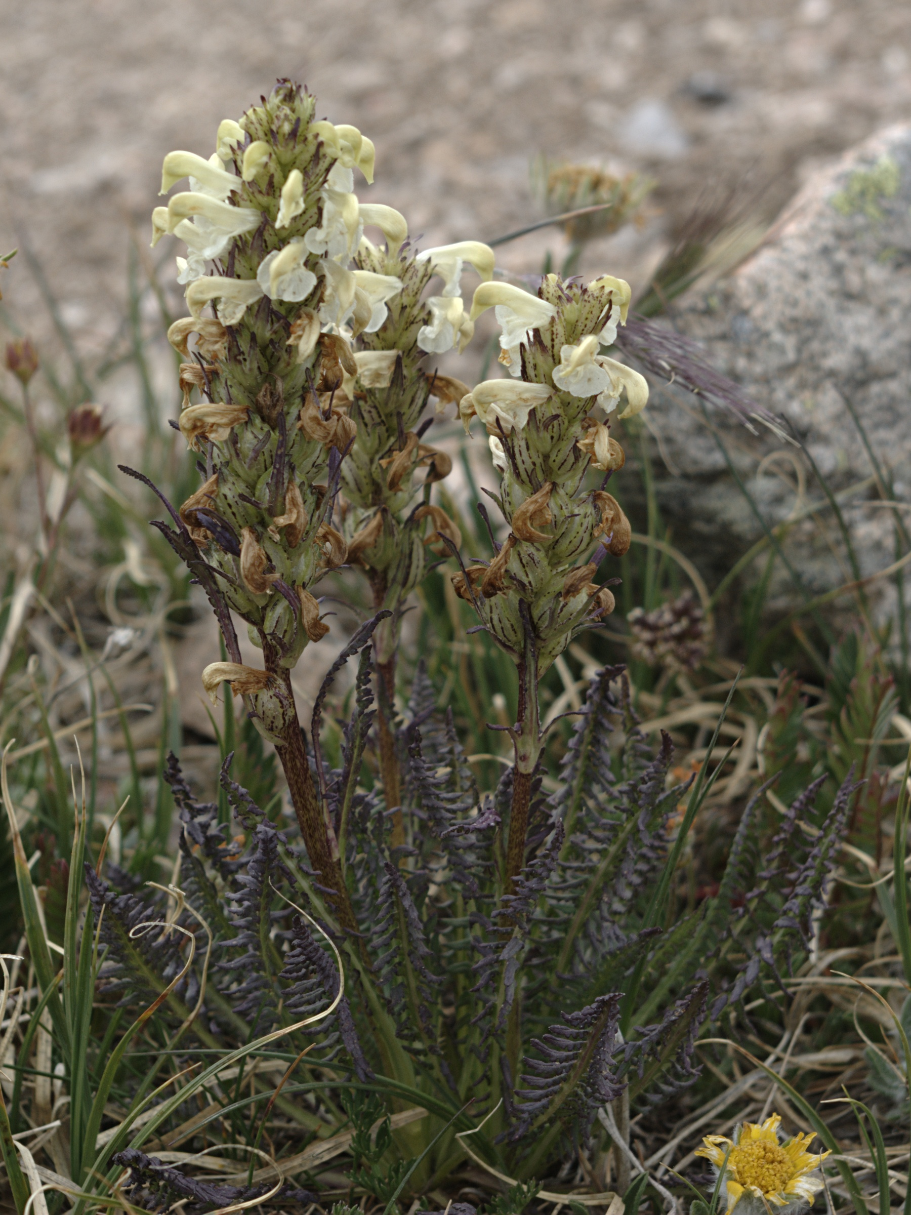 Pedicularis parryi, Parry's Lousewort, Santa Fe Ski Basin, Santa Fe National Forest, New Mexico. Same plant as File:Pedicularis parryi flora.jpg.